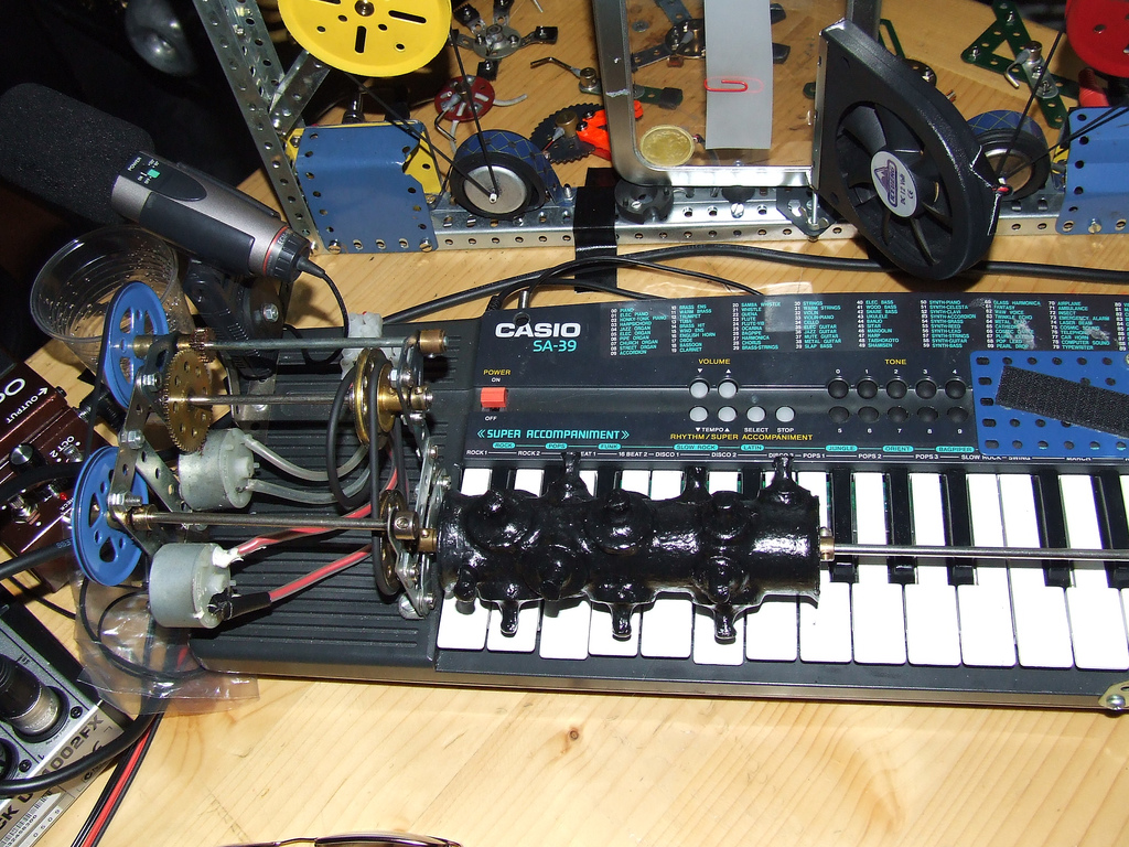 pierre bastien live in belgrade 2006 Mechanical sequencer on Casio SA-39